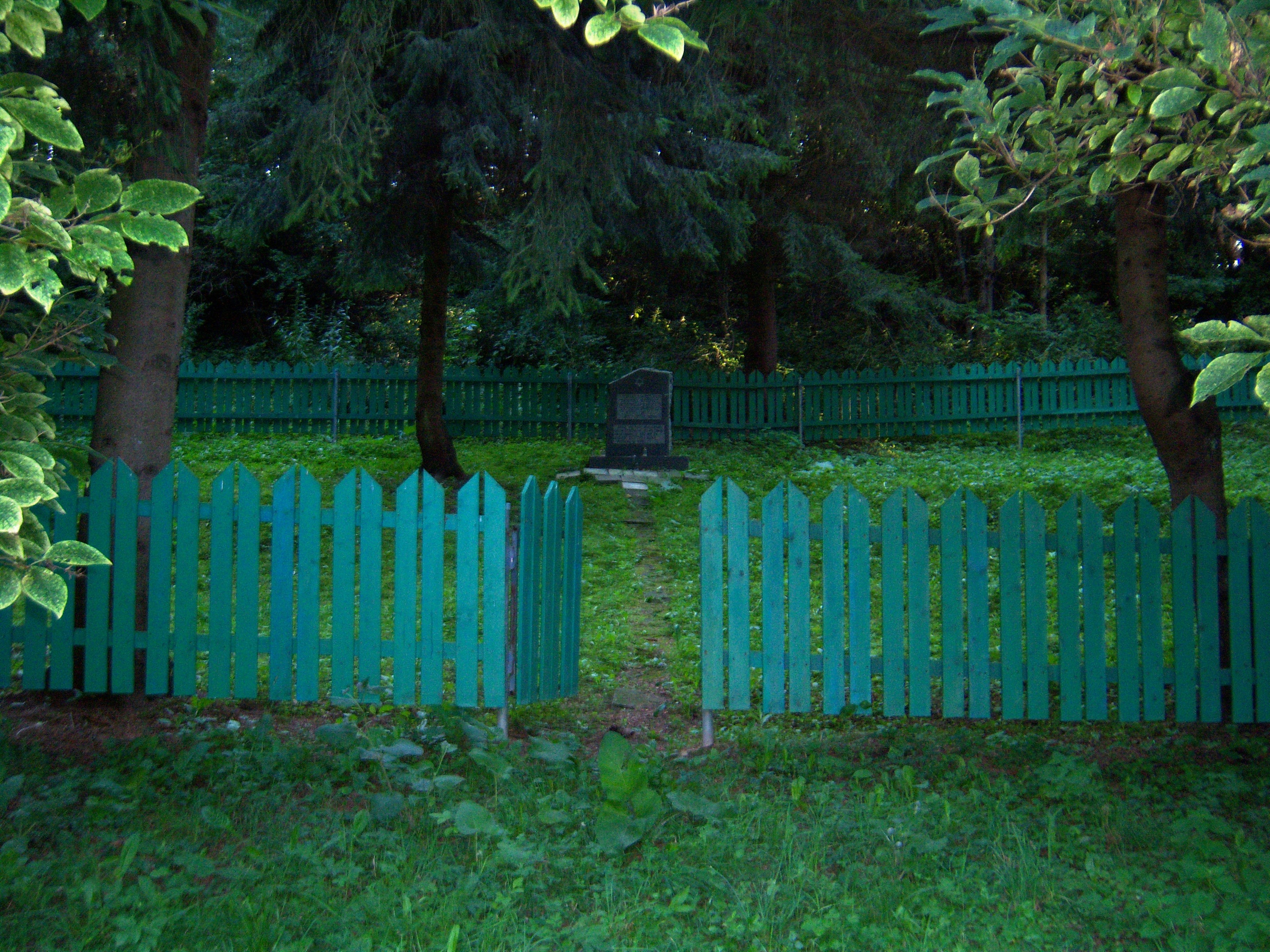 Holocaust in 1941: place of massacre of Jews in Rinkūnai, Kaunas district, Lithuania